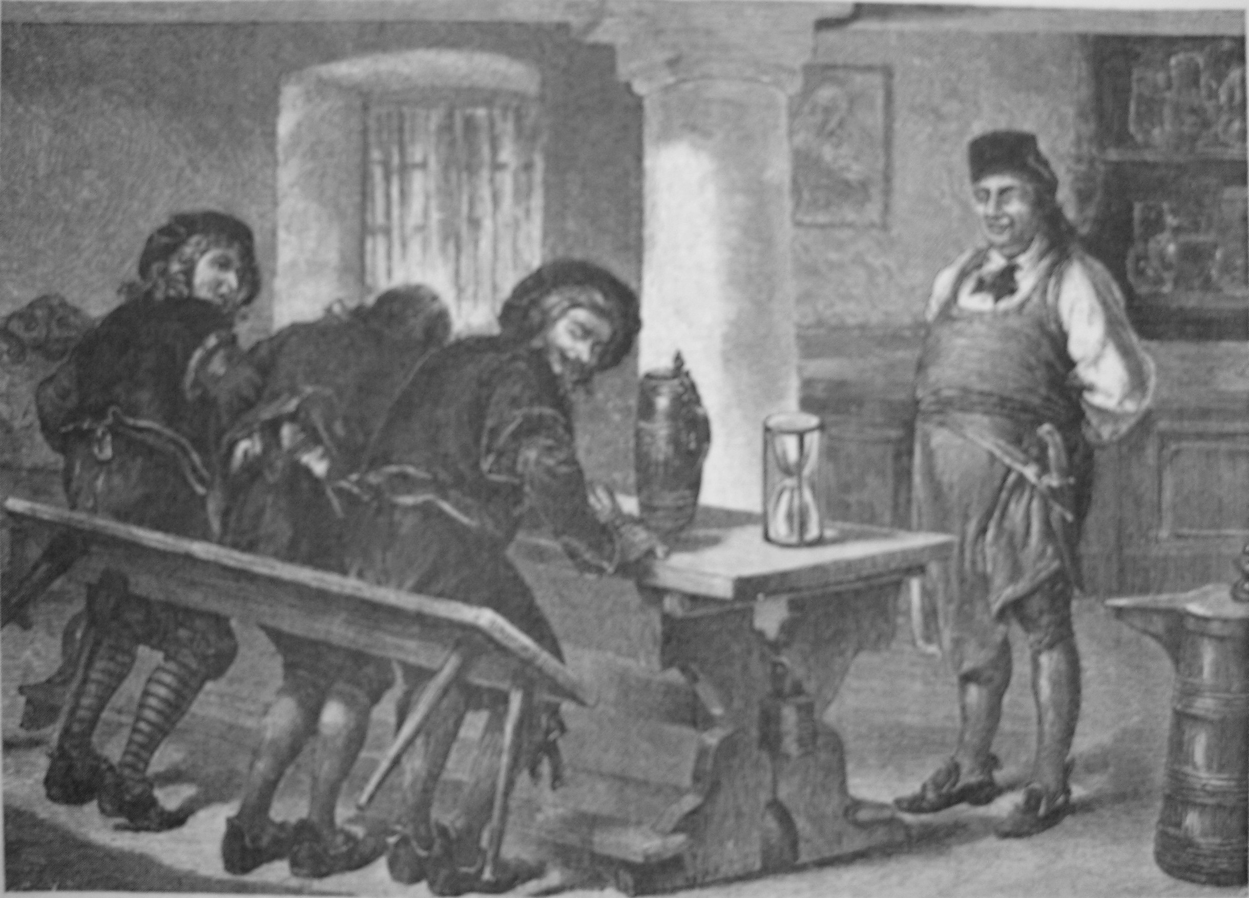 Artistic impression of a historical beer testing method.